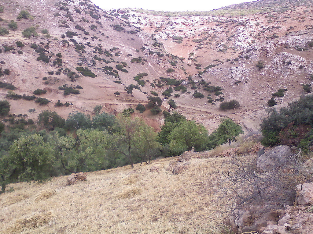 morocco, hotels, travel, city guides, tourism, culture, arts, community, blogs